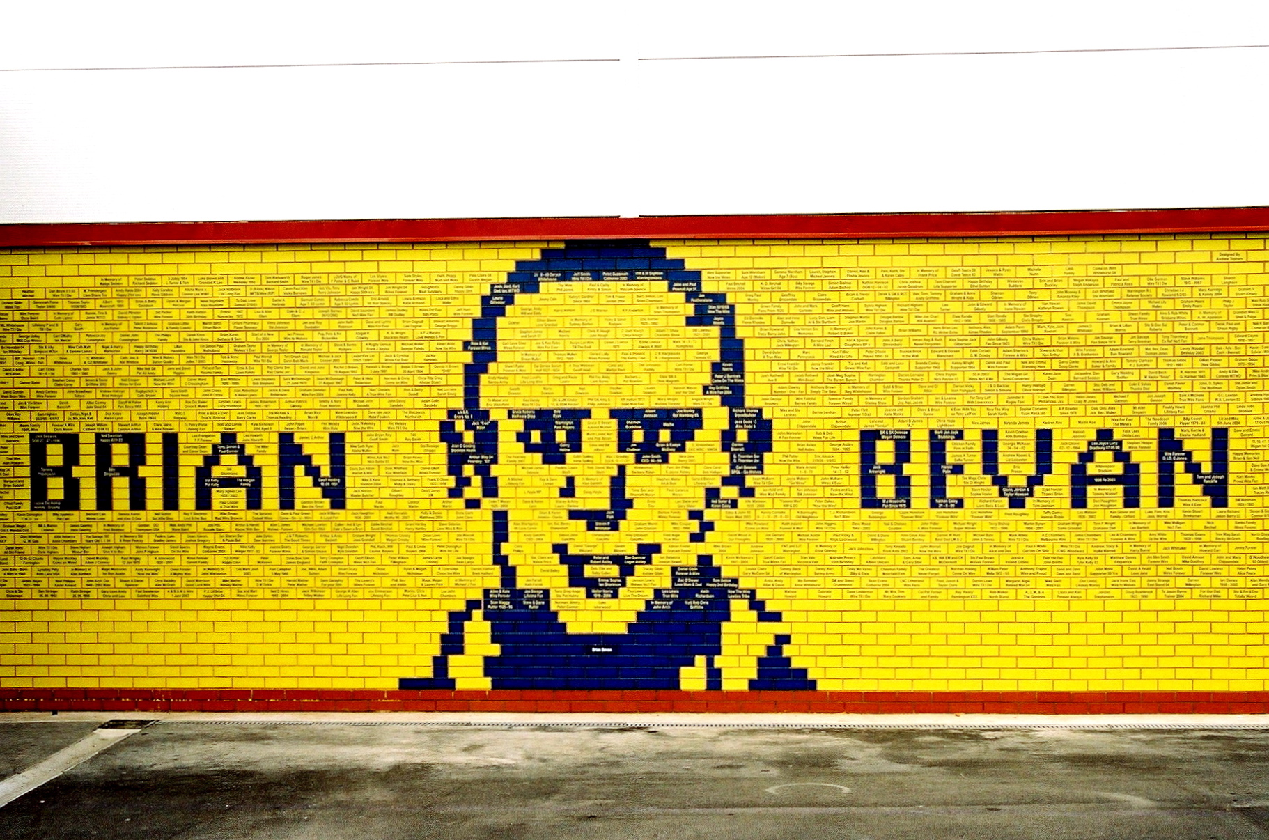 This wall commemorating former Warrington Rugby League player Brian Bevan is located outside the Haliwell Jones Stadium in Warrington, Cheshire, England.